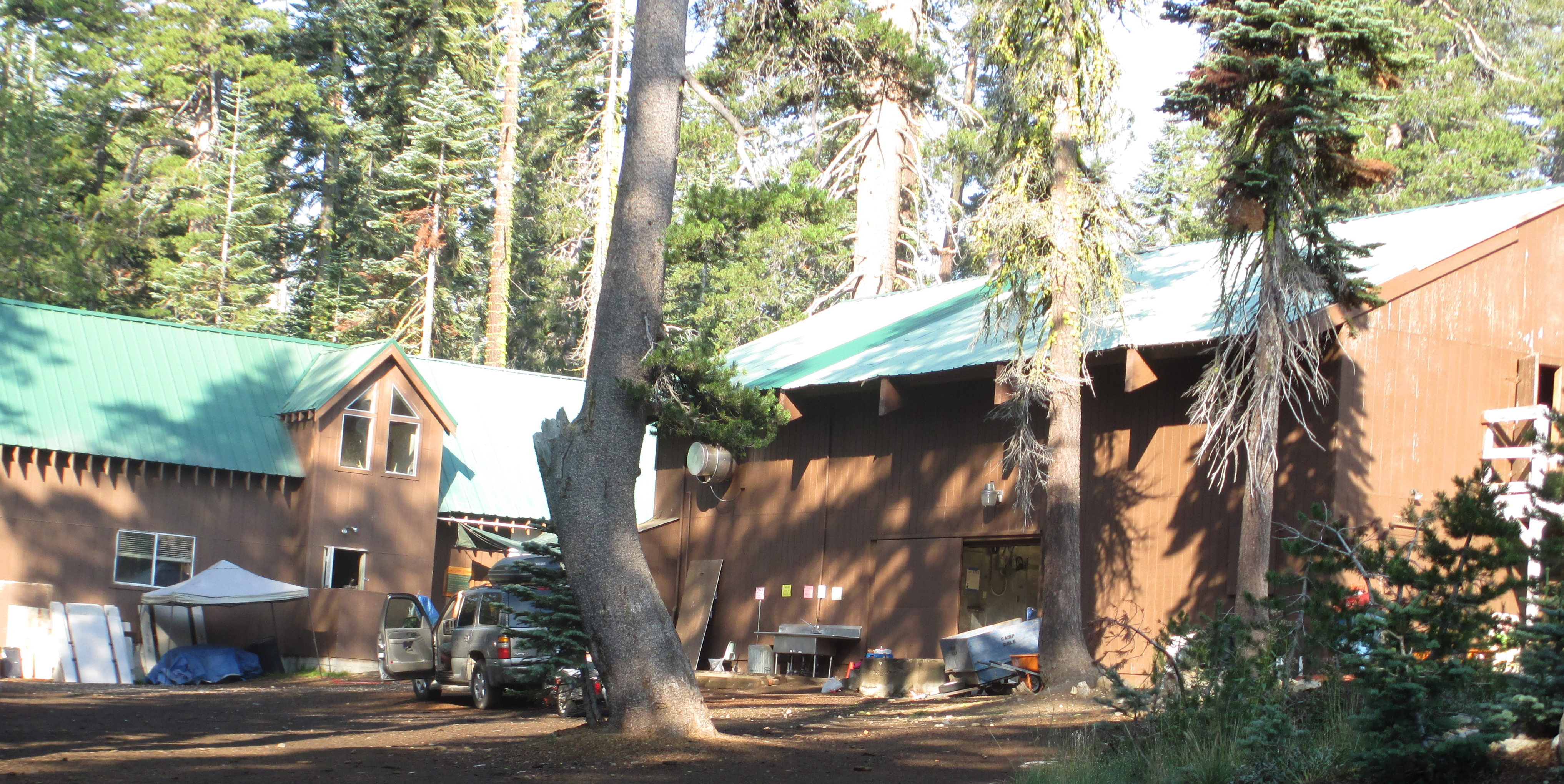 Camp Robert Cole in the Tahoe National Forest, Nevada County, California.